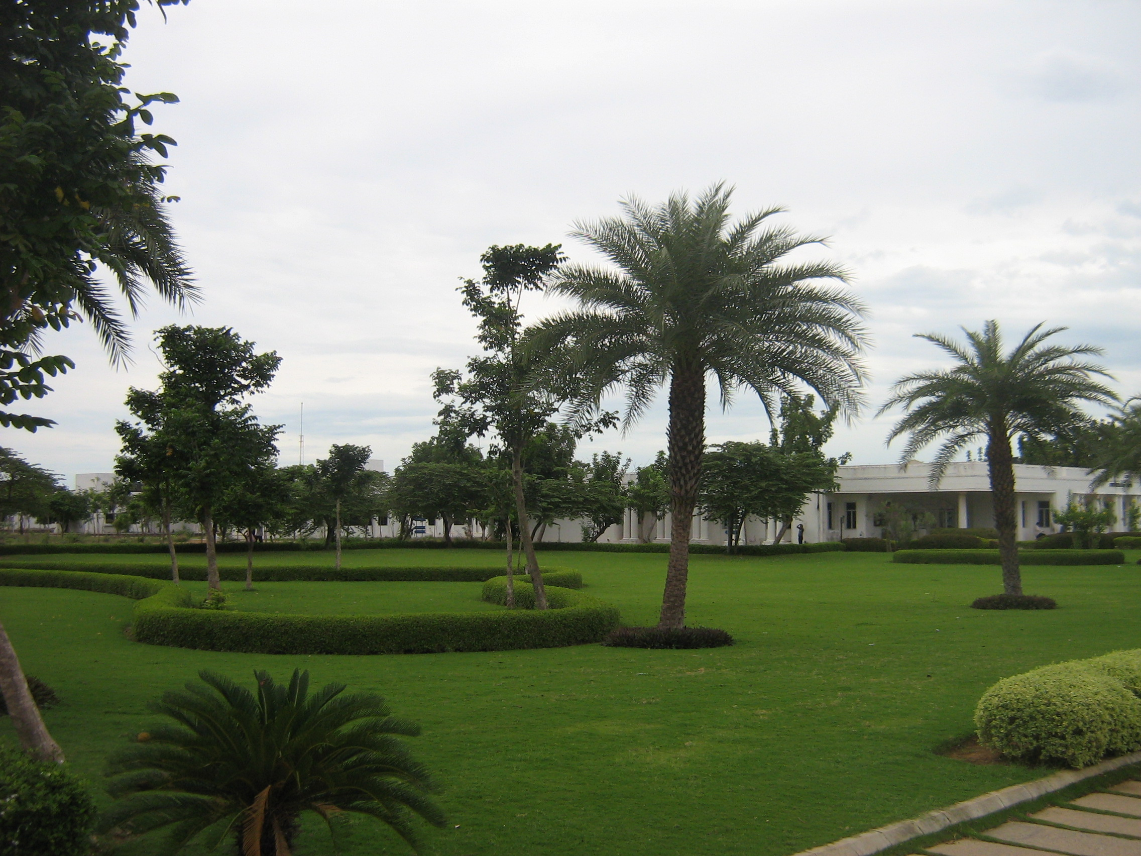 Lawn near Admin block